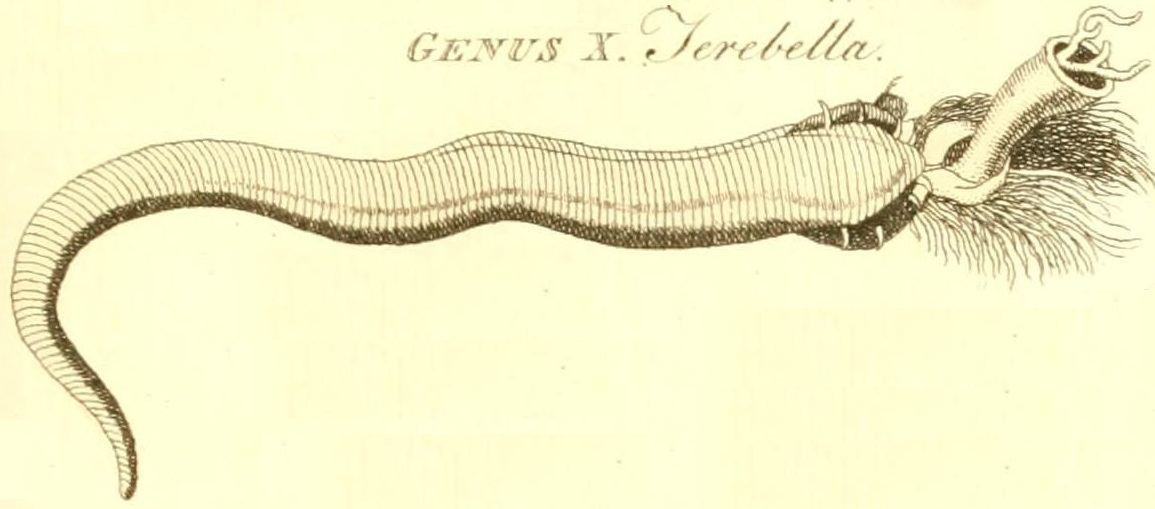 Genus Terebella. The genera vermium exemplified by various specimens of the animals contained in the orders of the Intestina et Mollusca Linnaei : drawn from nature / by James Barbut.